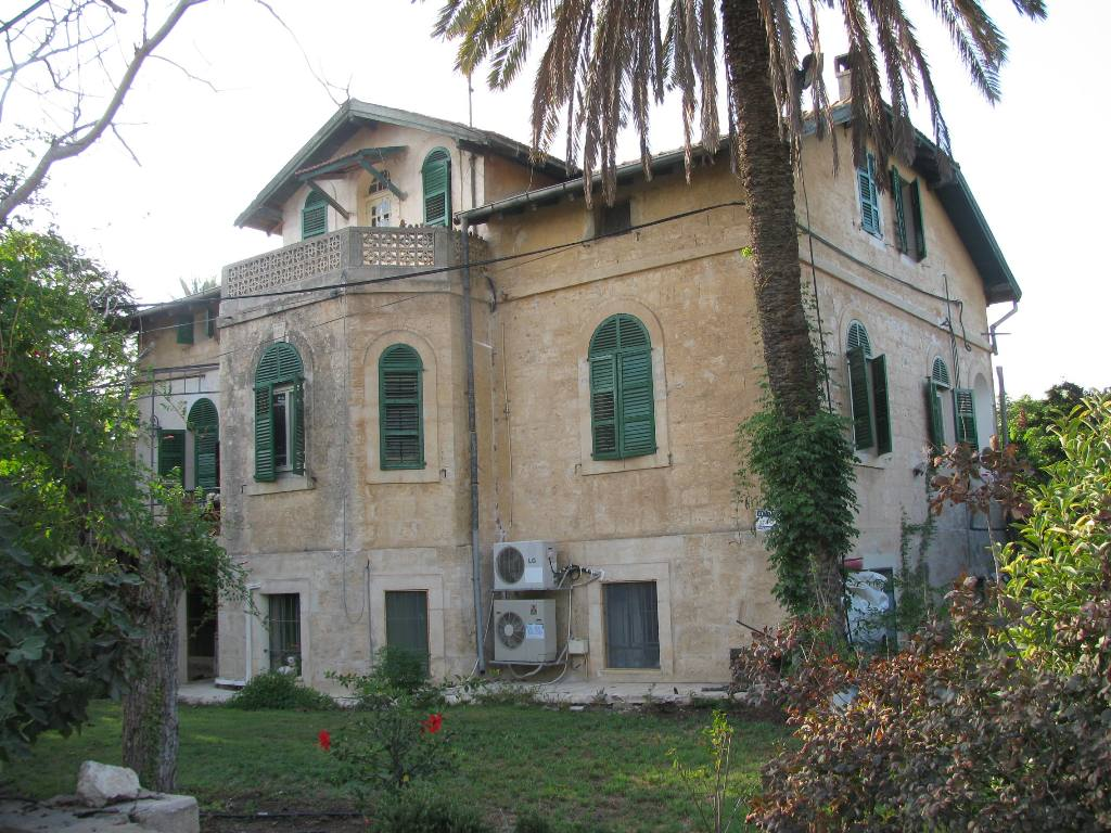 Templer classical structure